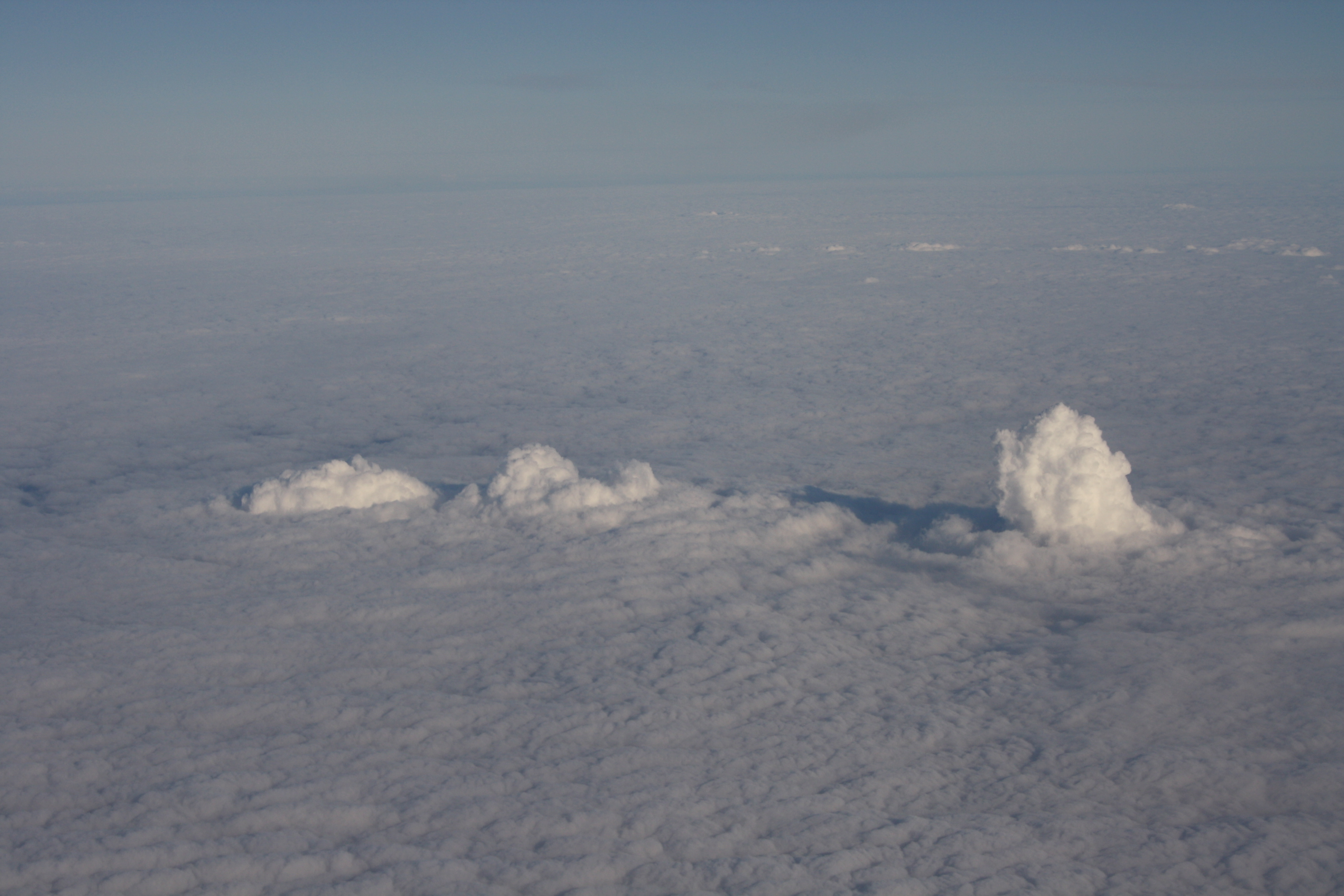 The steam plumes of Frimmersdorf Power Station (left), Neurath Power Station (middle) and Niederaußem Power Station (right) rise through the cloud layer. These clouds contain generally condensed water steam just like natural clouds. However, there is a certain amount of CO2 coming up from the powerstation which is invisible. Picture taken shortly after taking off at Cologne-Bonn Airport, Runway 14L and making a right turn, flying pretty exactly westwards. Aboard flight AB9250 to Mallorca, Registration D-ABBQ, looking northwards.